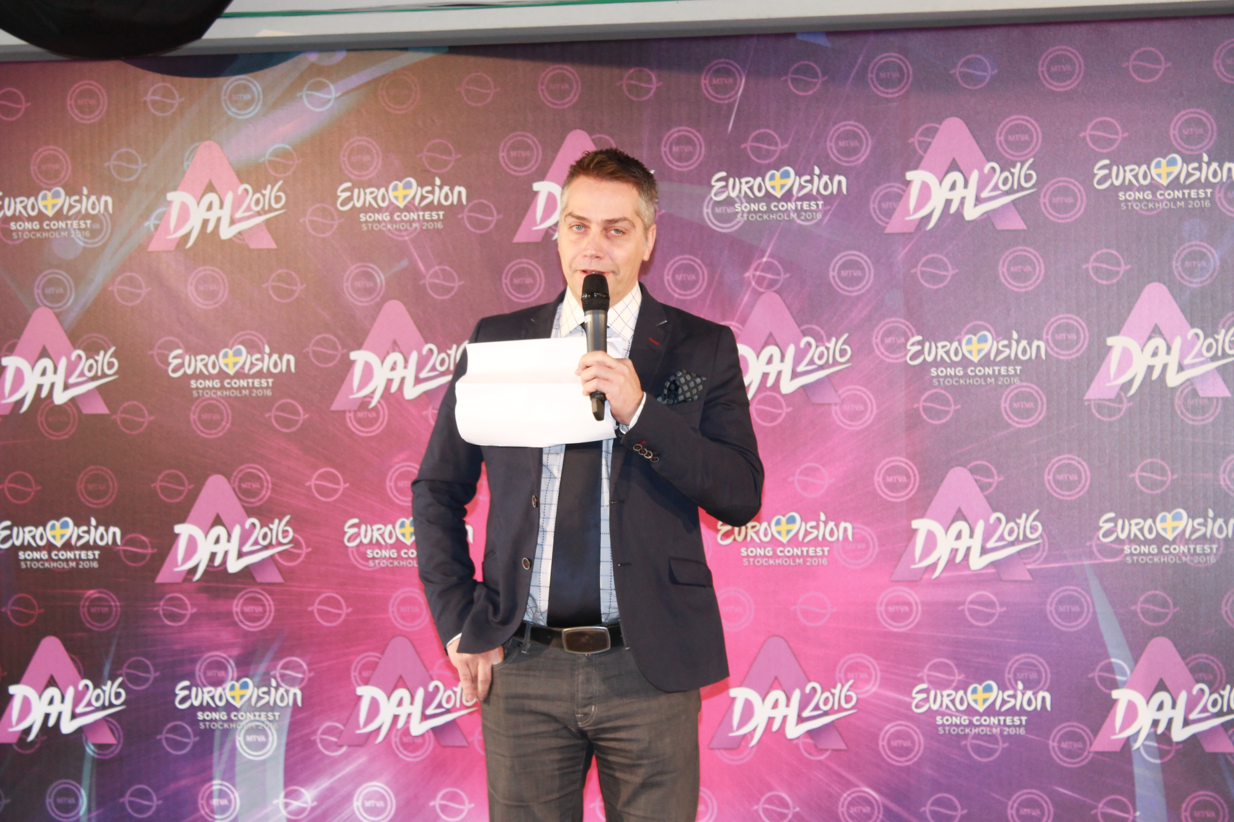 One of the hosts of A Dal 2016: Levente Harsányi